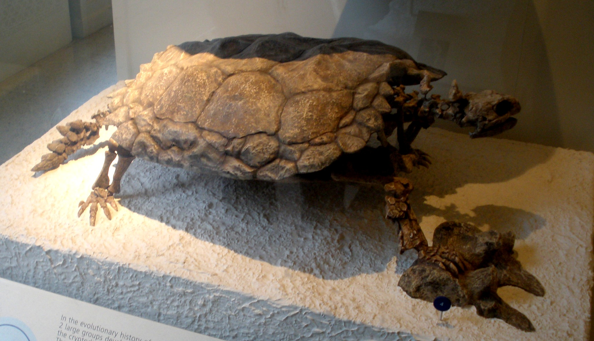 Fossil of Proganochelys, a fossil turtle